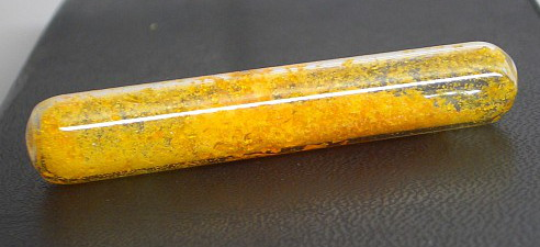 Chloroauric acid, HAuCl4